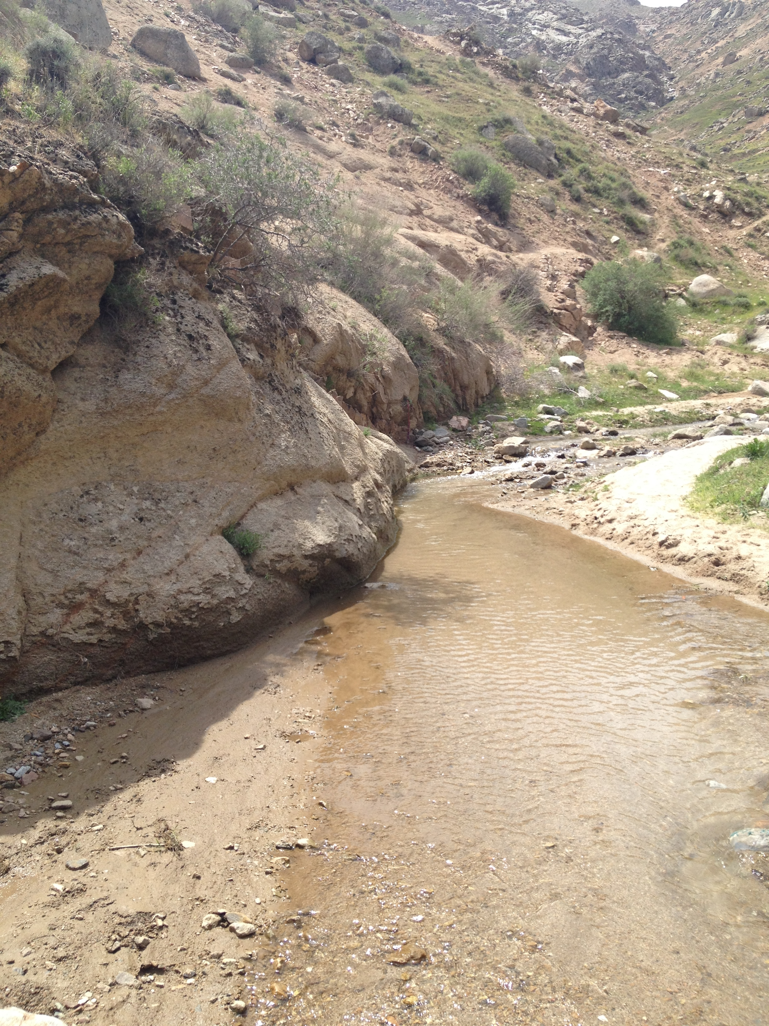 Jiltema Say in May